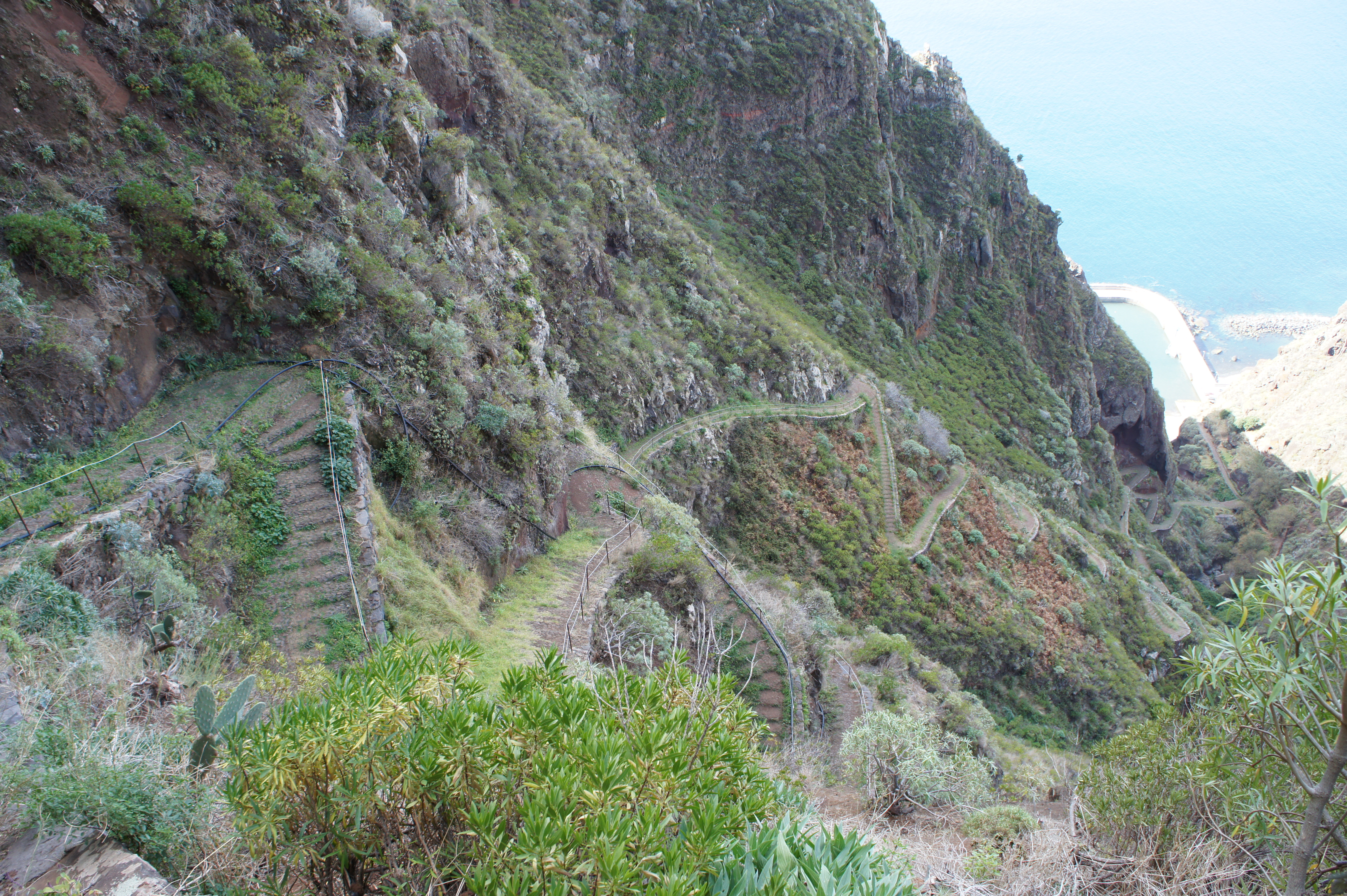 Caminho Real do Paúl do Mar